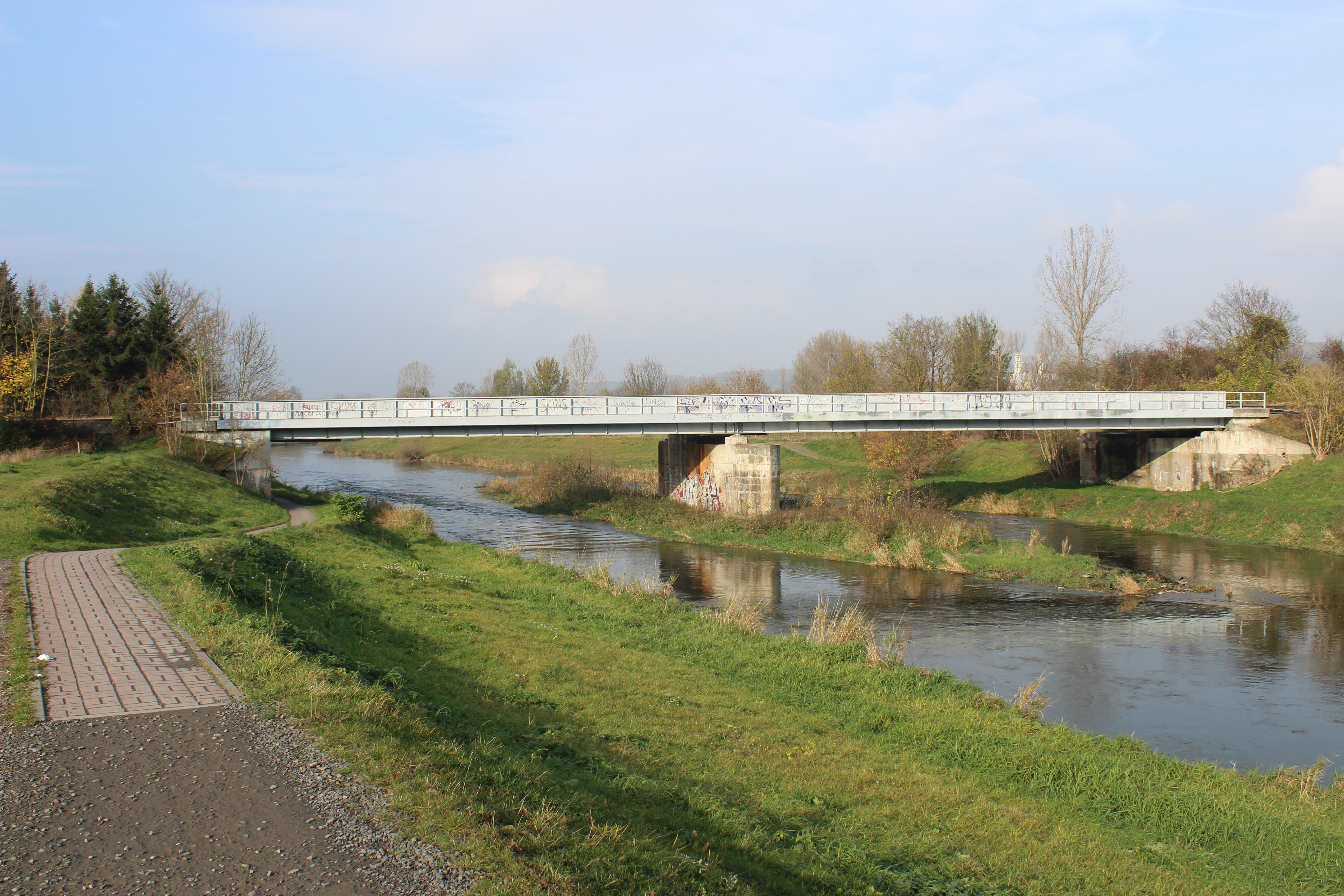 railway bridge Weiße Elster in Gera